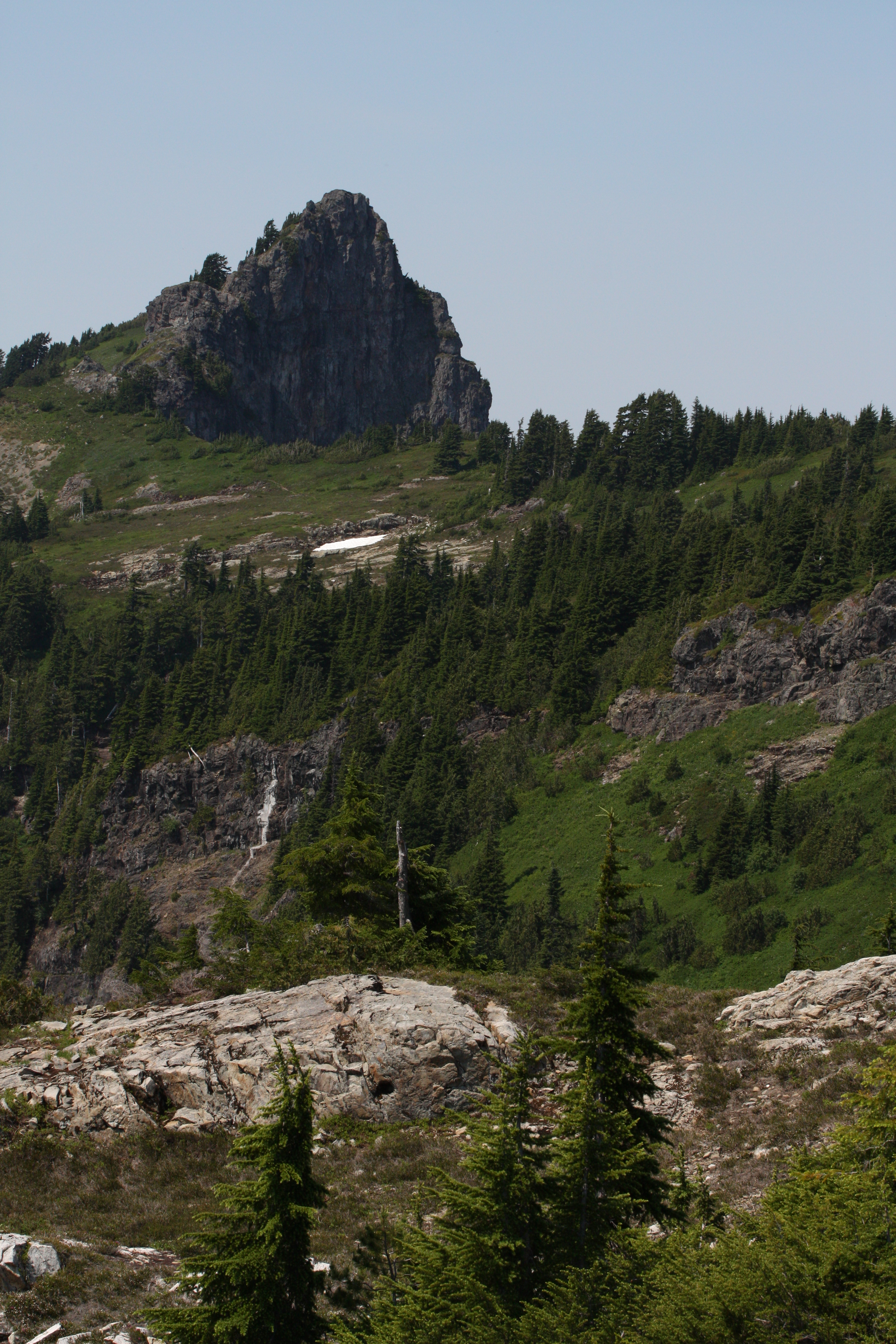 Stillaguamish Peak (5720+ feet, 1743+ m); Tsuga mertensiana (Mountain Hemlock); Abies lasiocarpa; subalpine transition zone